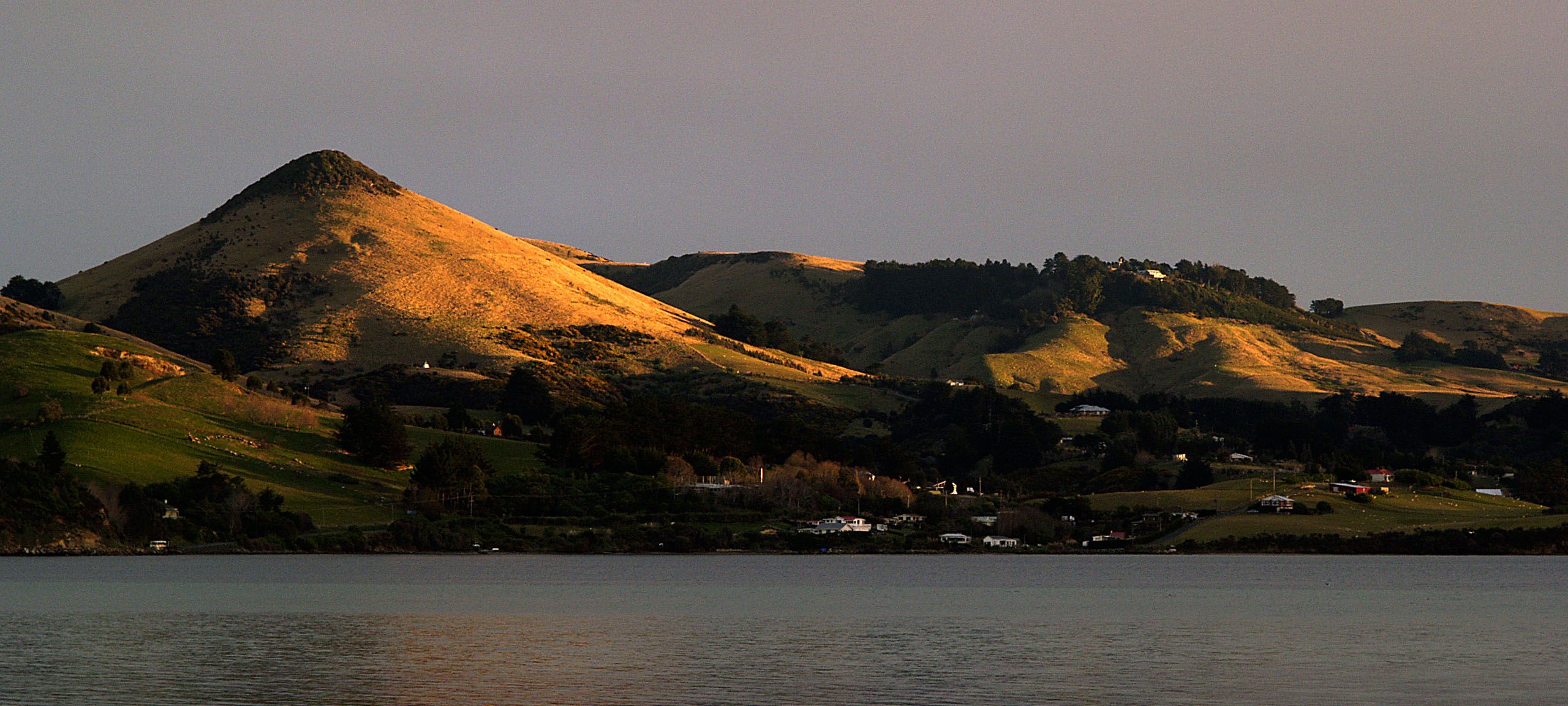 Harbour Cone, Otago Peninsula, Dunedin, New Zealand